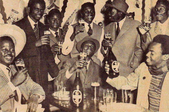 Members of OK-Jazz drinking Primus beer while on their trip to Brussels in March 1961